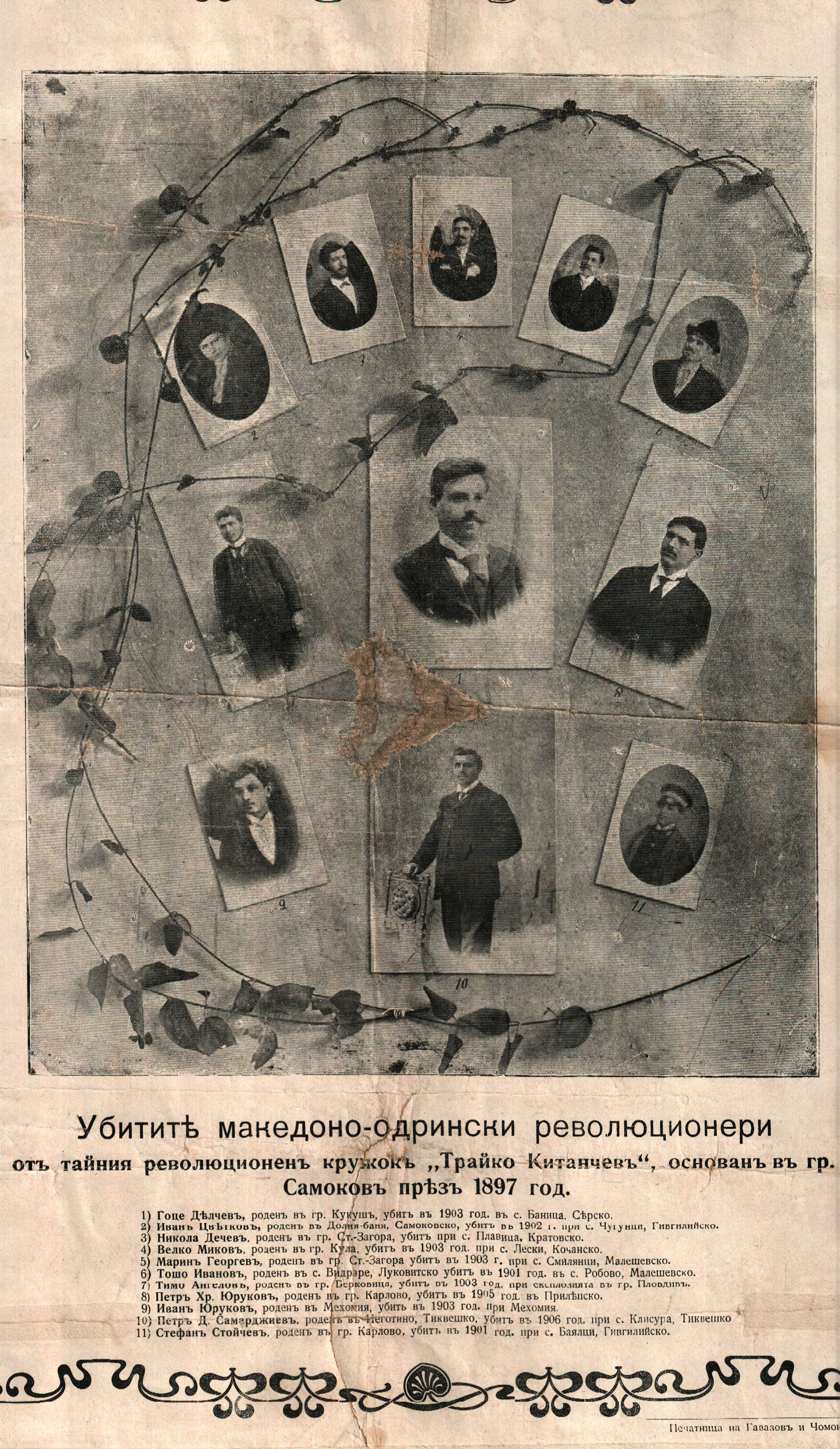 Memorial list with photos of the fallen members of the Trayko Kitanchev Revolutionary Circle, founded in Samokov in 1897